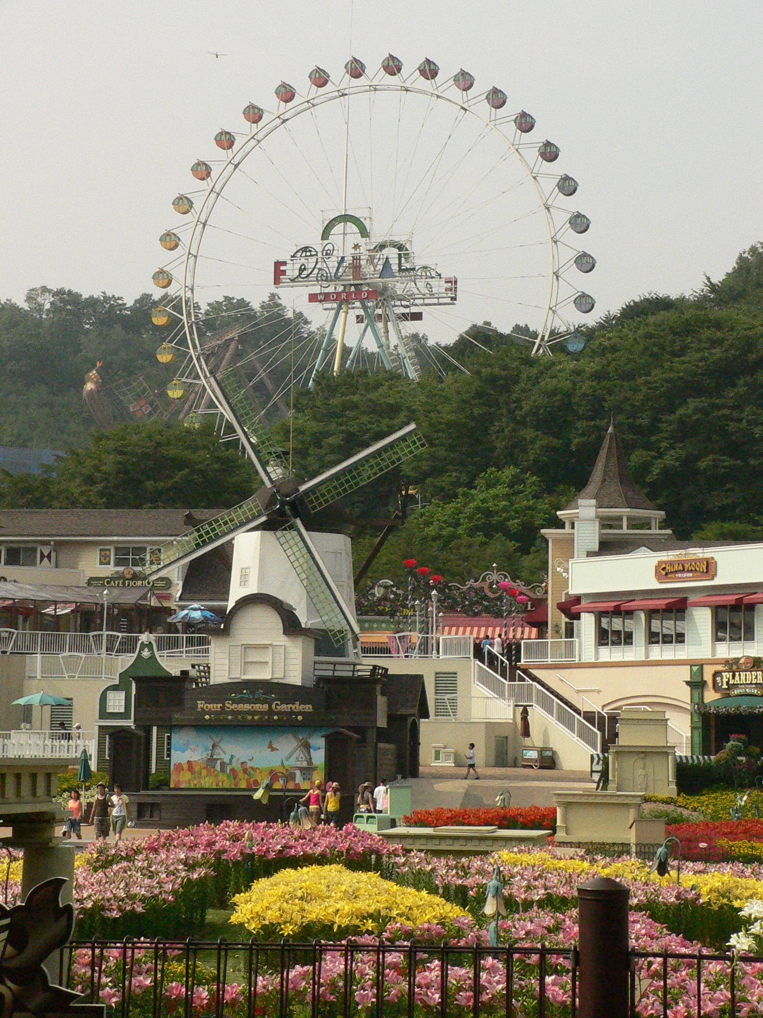 Everland, the biggest theme park of South Korea located in Yongin, Gyeonggi Province.